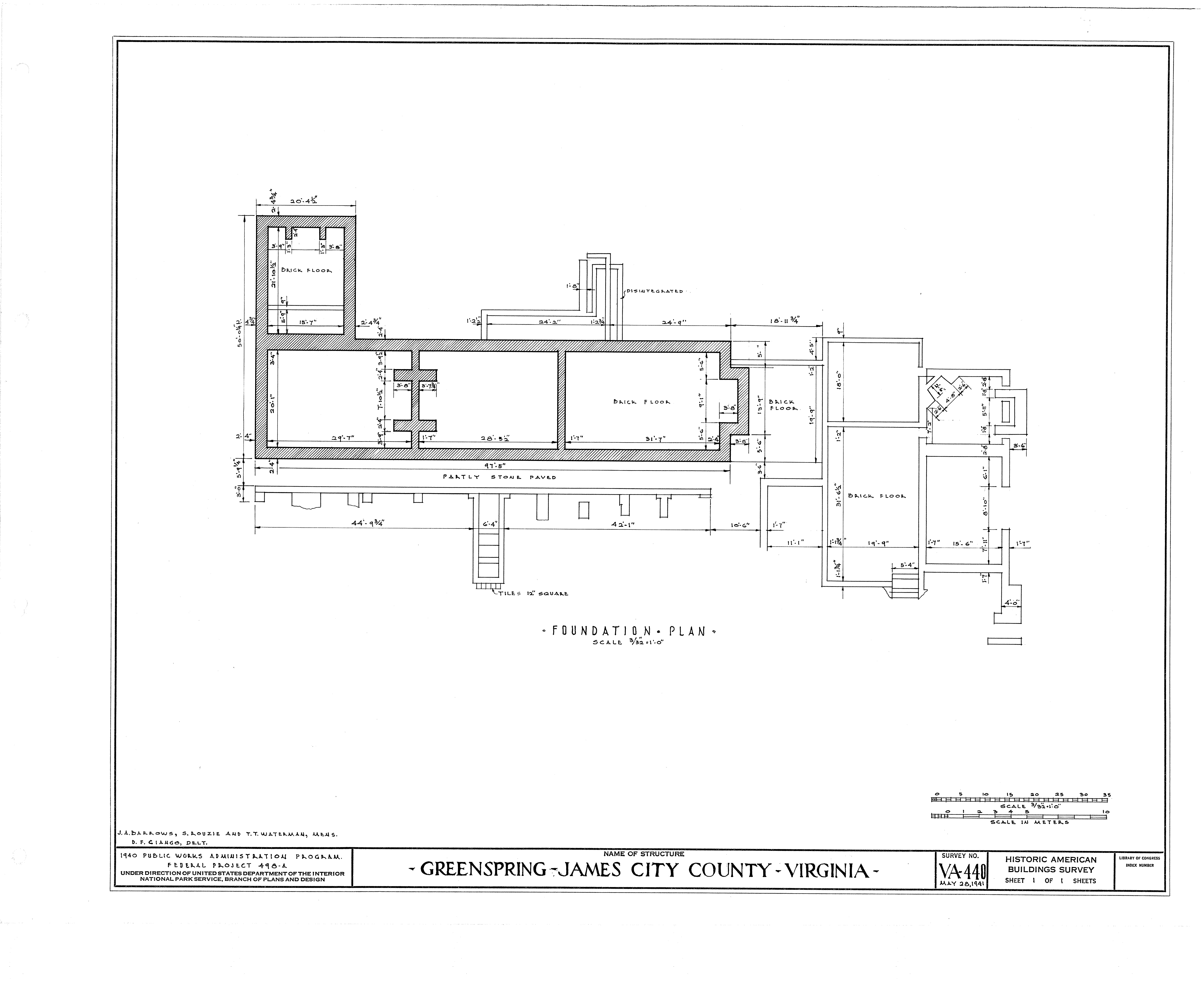 Survey of Green Spring Plantation in Virginia, USA. "Greenspring, State Route 614 vicinity, Williamsburg vicinity, James City County, VA" (description according to source)